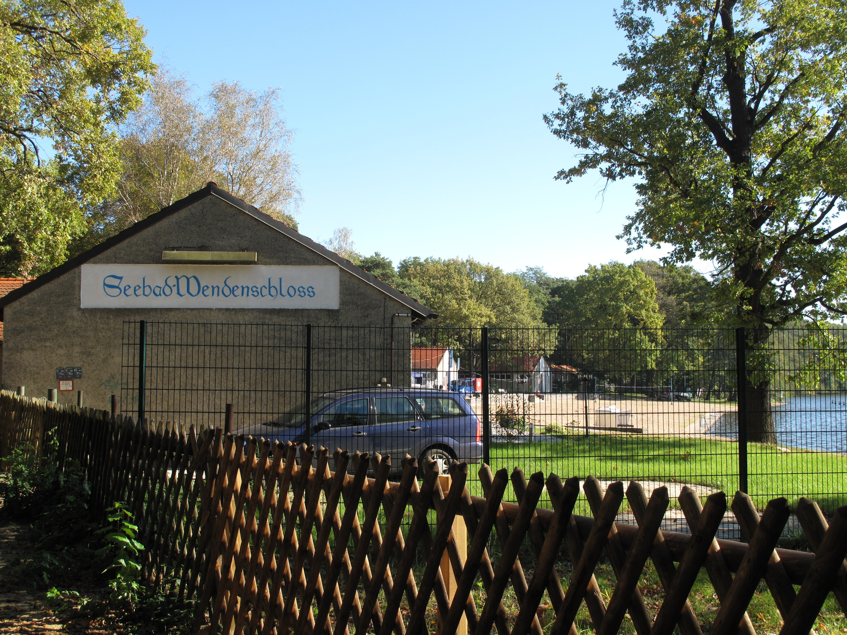 The Seebad Wendenschloss, also known as Strandbad Wendenschloss or Freibad Wendenschloss, is a public open air bath in the locality Köpenick in Berlins borough Treptow-Köpenick, Germany. It is situated in the location Wendenschloß in Berlins city forest at the northern bank of the Langer See (german for: long lake), which is passed by the river Dahme. The bath was opened in 1914/15.